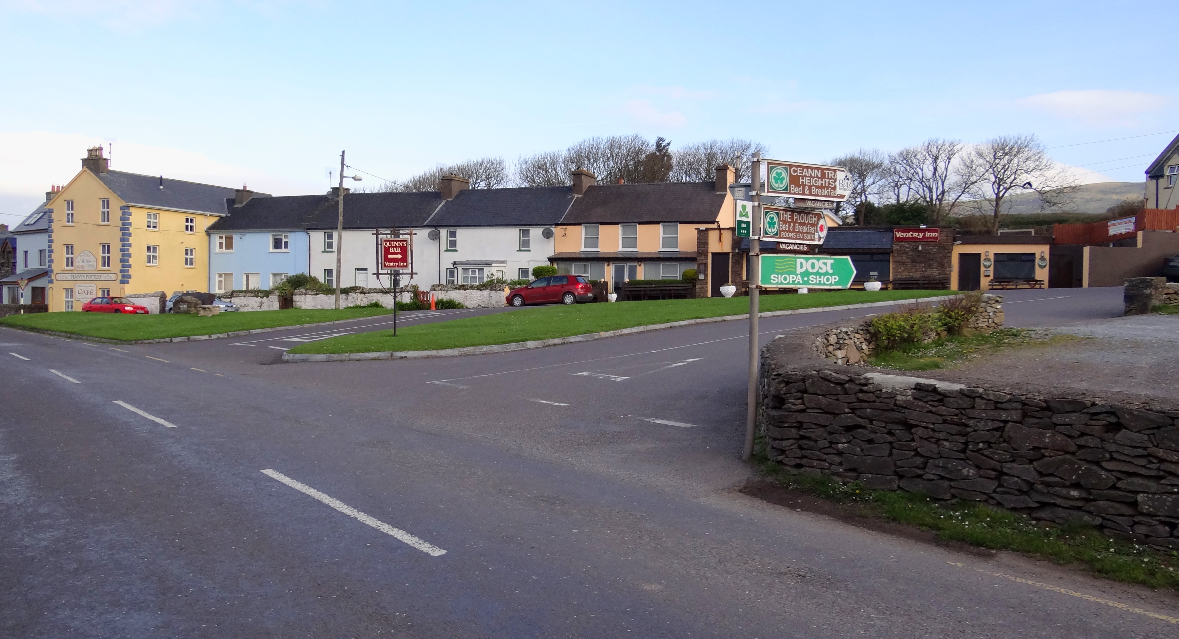 The center of the village of Ventry, towards the western end of the Dingle Peninsula, Ireland.